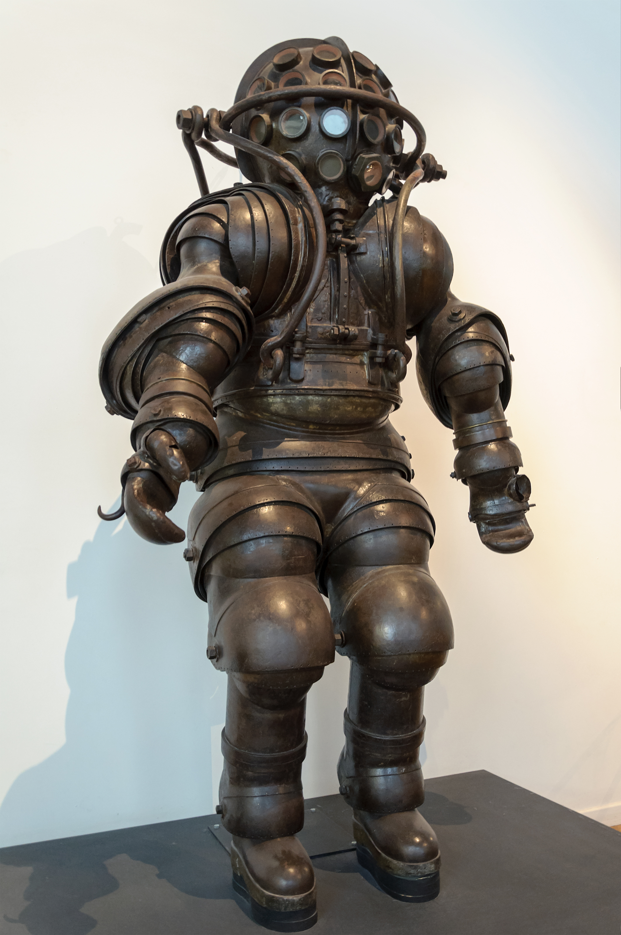 Deep-sea atmospheric diving suit